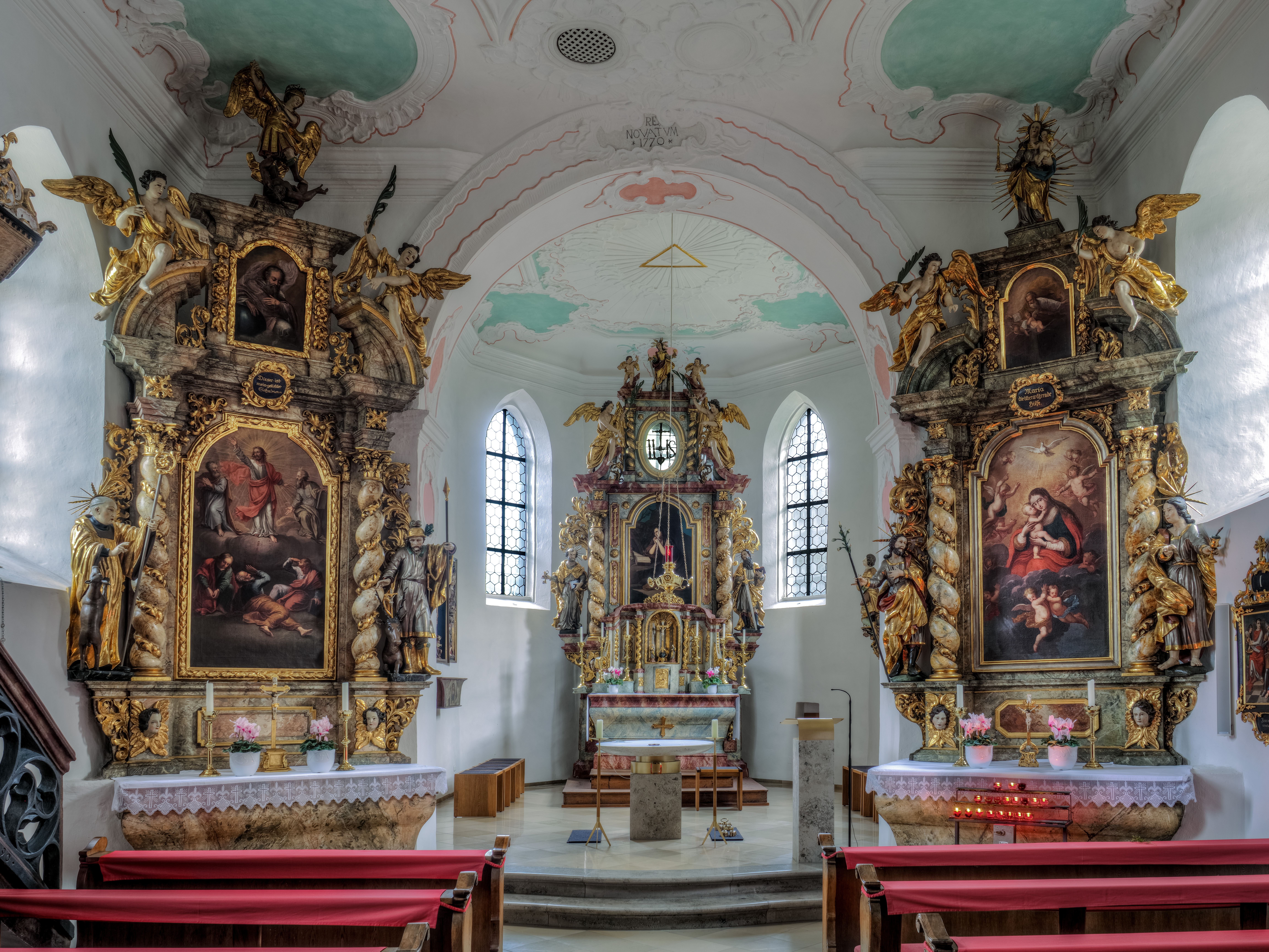 Interior of the Catholic Church of St. Mary Magdalene in Unterleiterbach